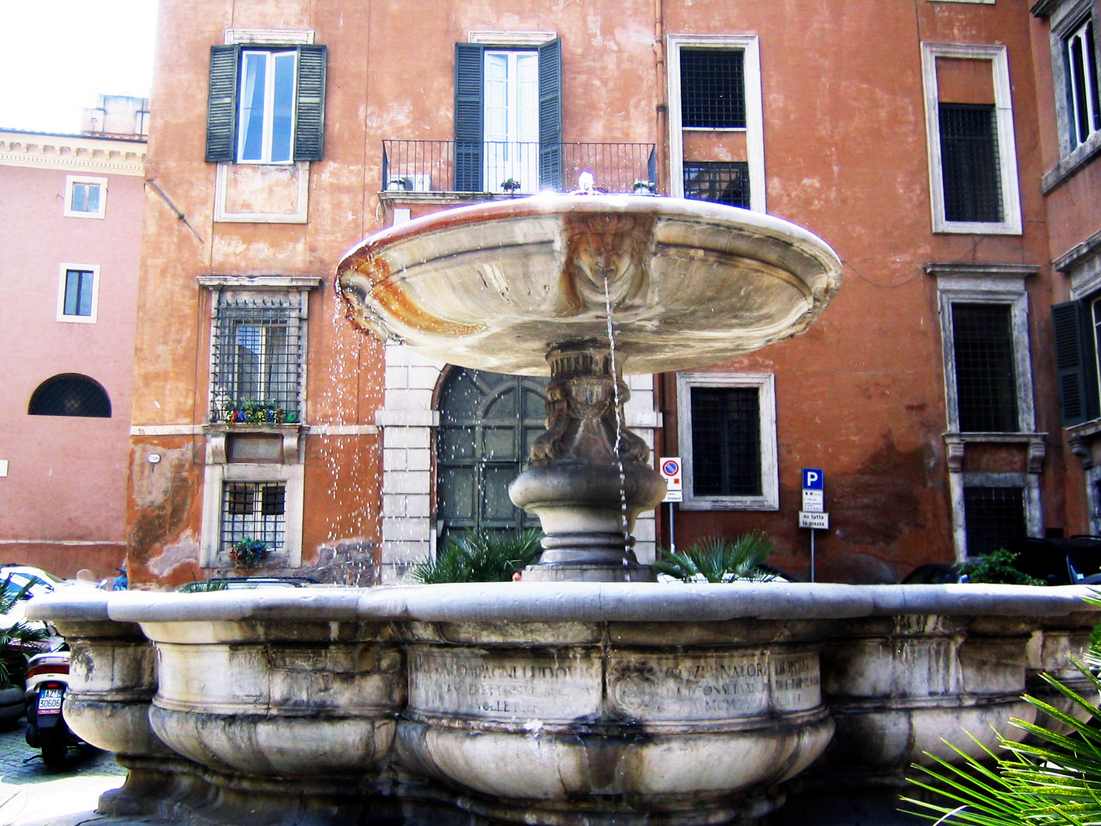 A grand sixteenth-century fountain by Giacomo della Porta, this used to be the only source of fresh water for the entire Jewish population of Rome. In the background, palazzo Cenci